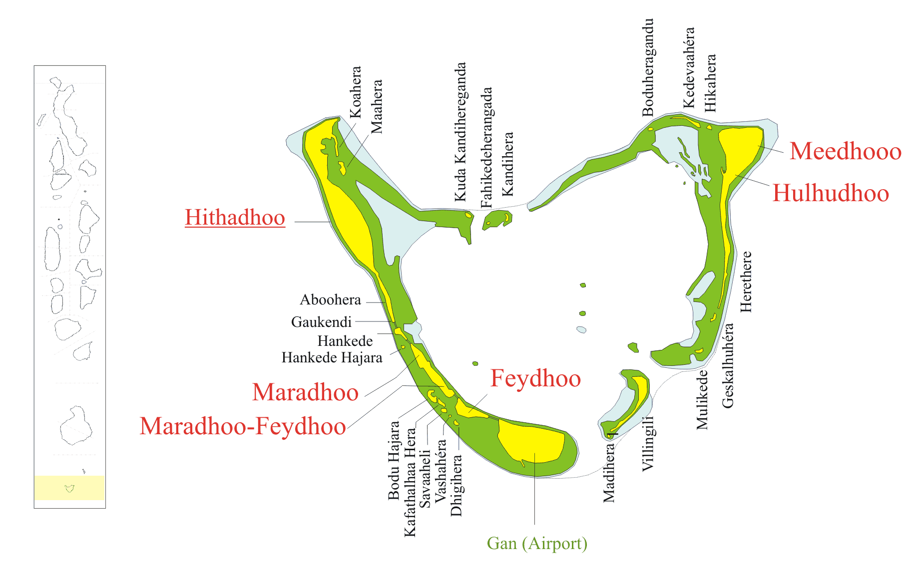 Summary Map of Seenu_atoll Map originally vector'ed by Hassan Waheed, Aabaadhuge of Thinadhoo island. Note: This section of map was extracted and its text was romanized by Oblivious. Special assitance by Waddey and Zuru Converted to PNG by helix84 source: Image:Seenu_atoll.jpg